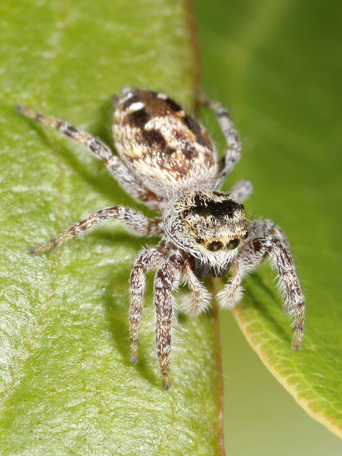 Adult female Pelegrina aeneola jumping spider collected in Yosemite Valley, Mariposa County, California.